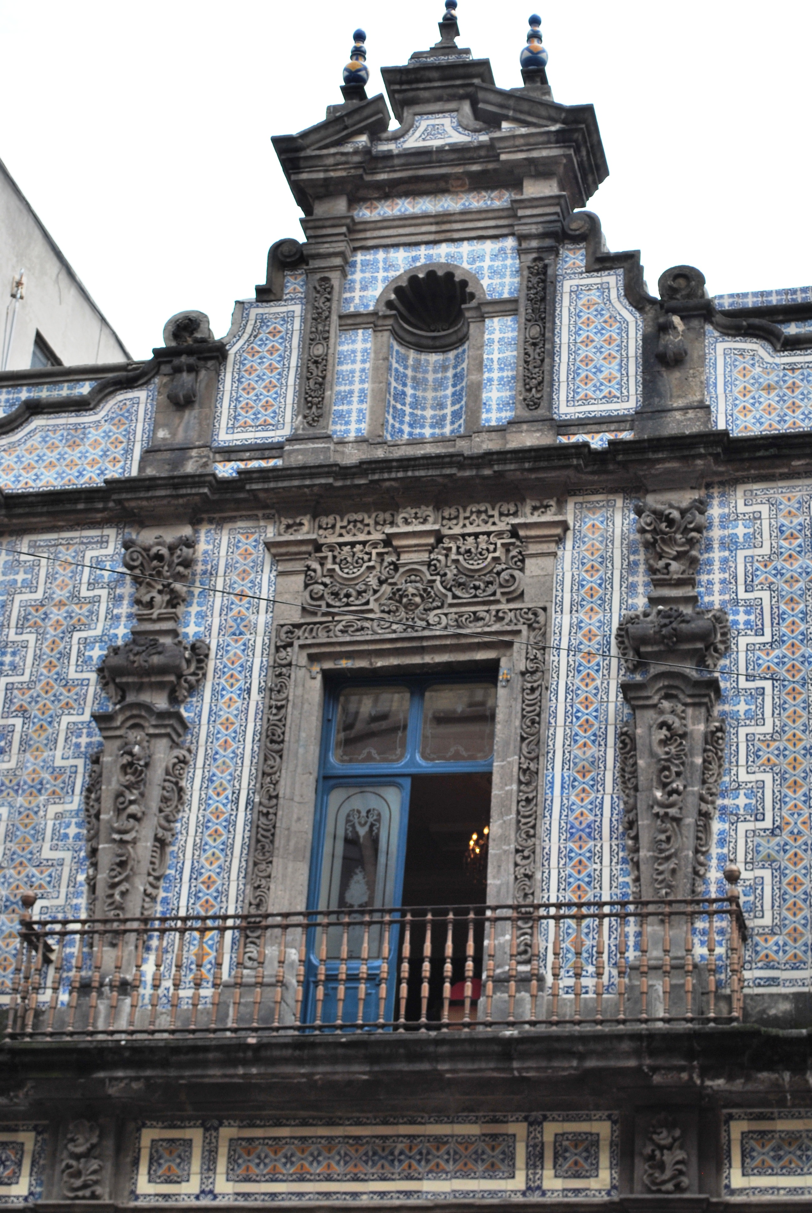 Window with crest on 5 de Mayo Street side of the Casa de Azulejos in the historic center of Mexico City